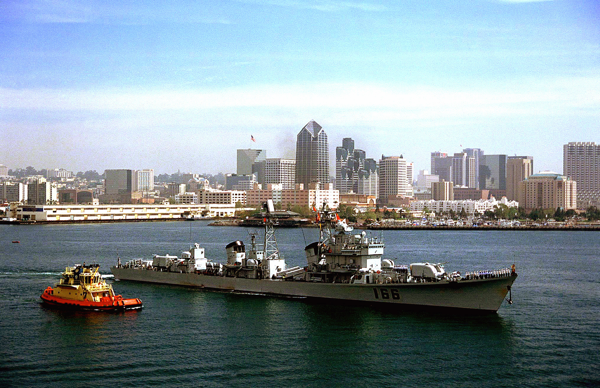 Chinese sailors man the decks of the Luda II Class Destroyer, ZHUHAI (DDG 166), with downtown San Diego in the background. This marks the first time Chinese warships have crossed the Pacific and visited the Continental United States.